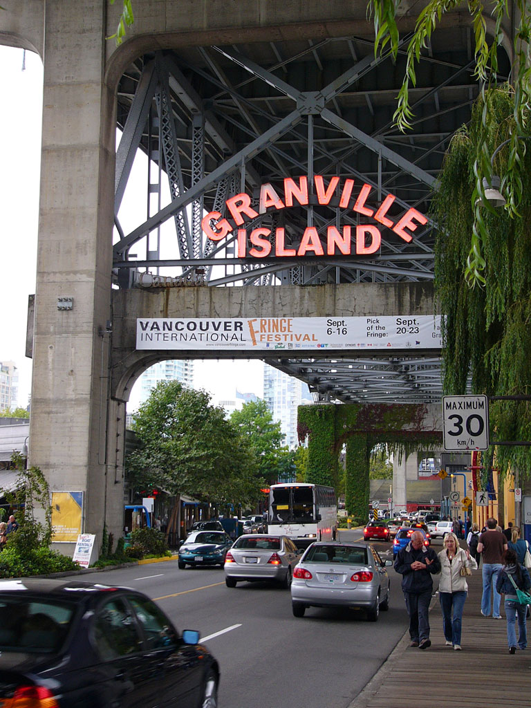 Granville_Island